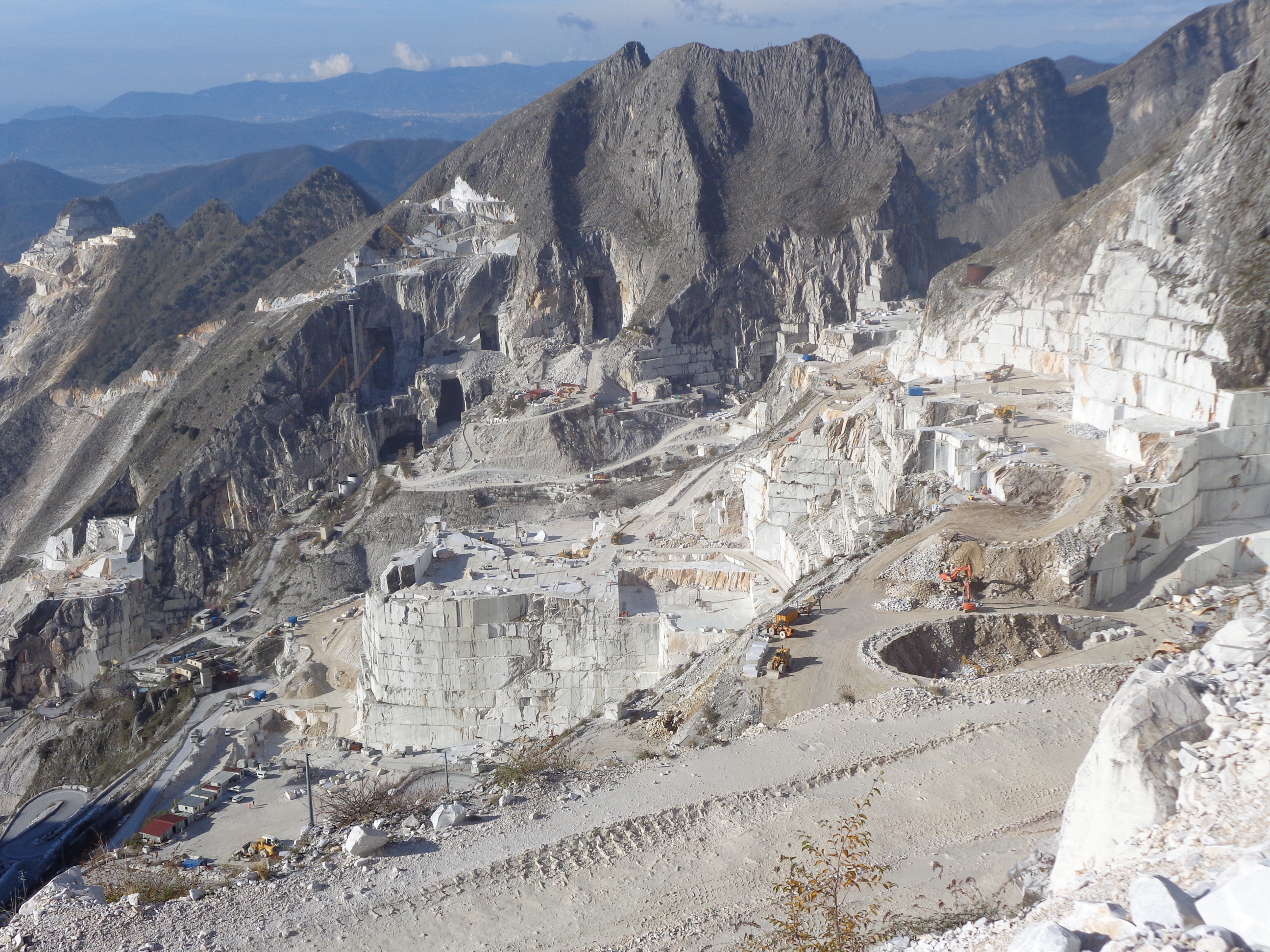 The famous Marble Quarries of Carrara